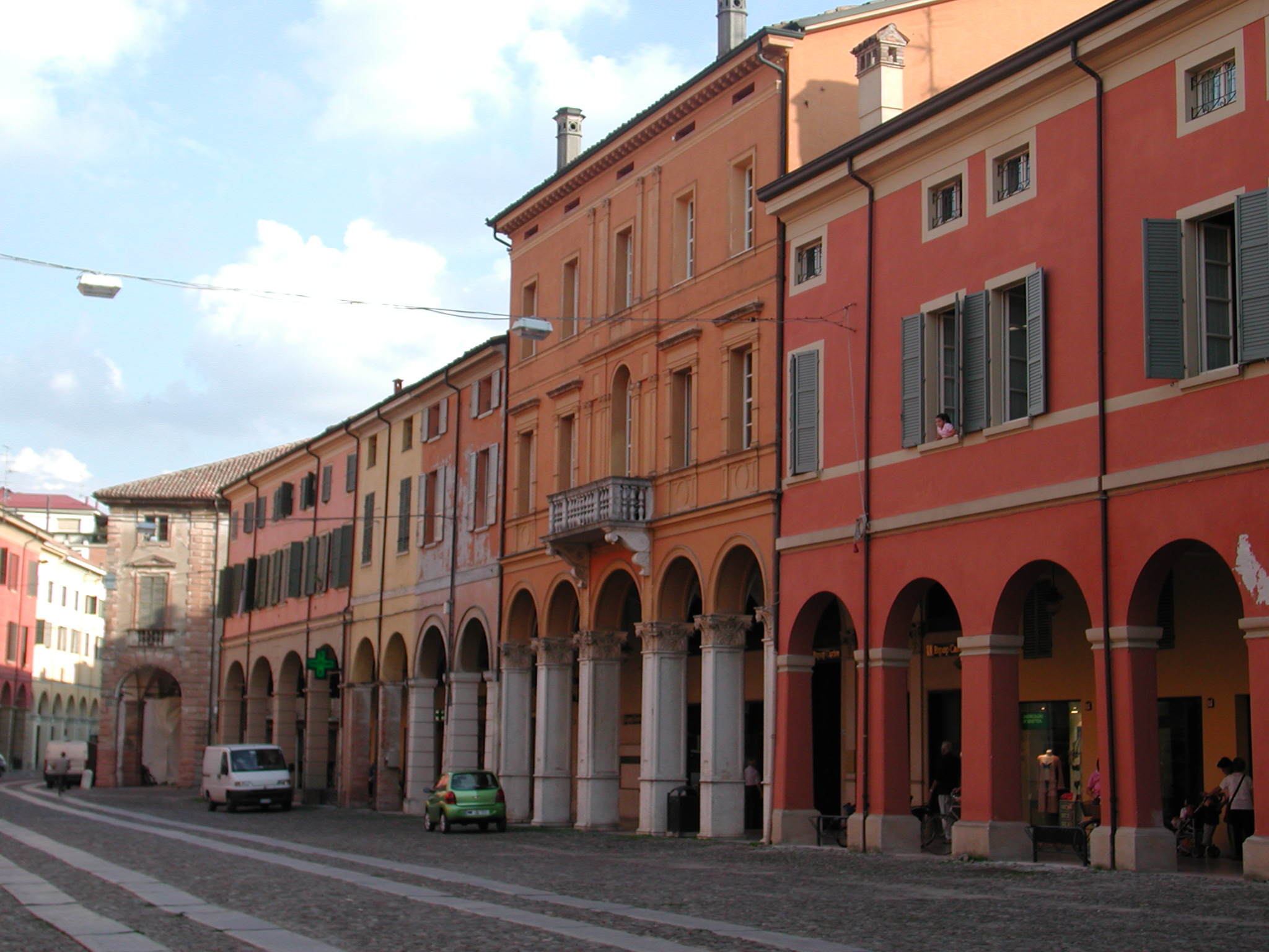 Correggio (Italy) a town near Reggio Emilia, Italy